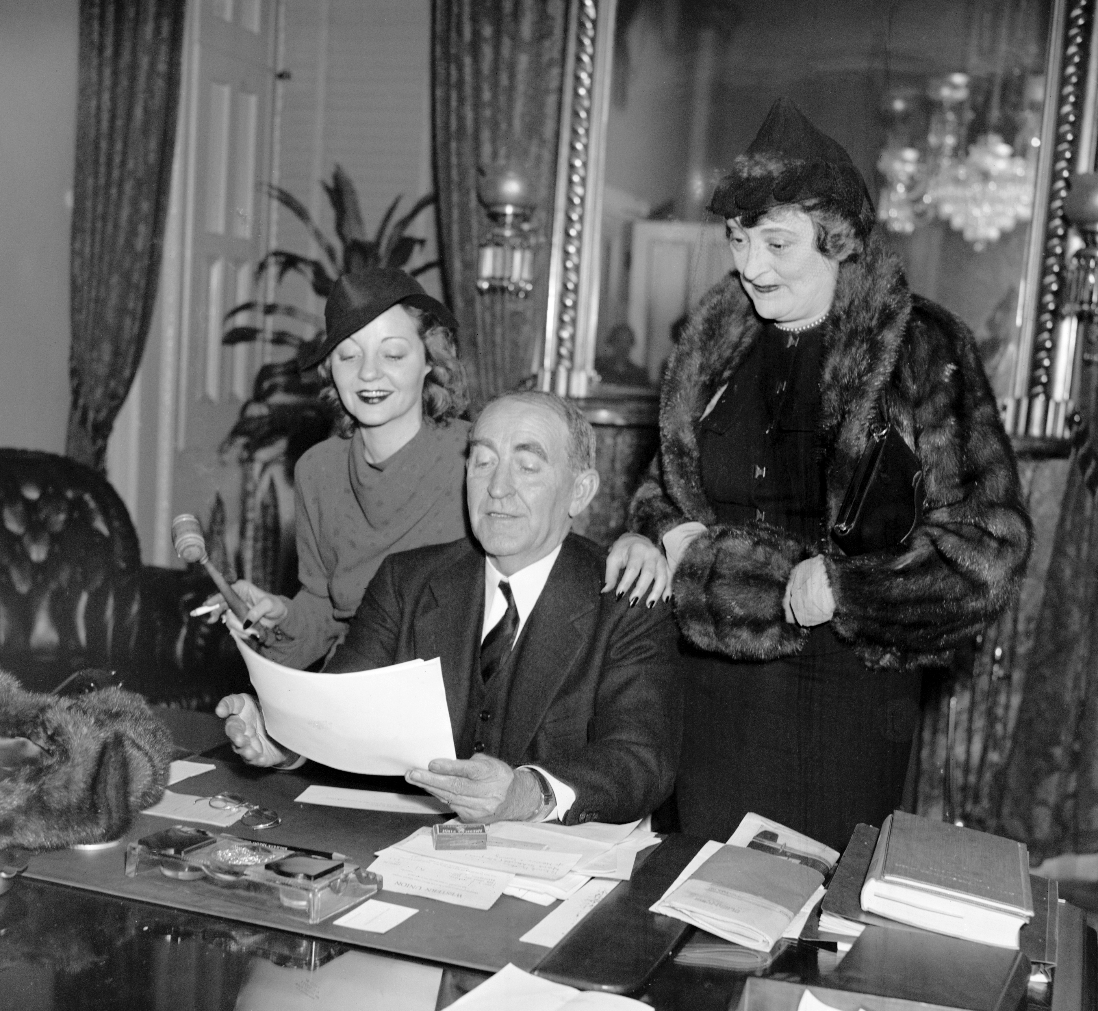 Photograph of Tallulah Bankhead with her father and stepmother in her father's office in Washington, D.C. Her father, William B. Bankhead, was Speaker of the House of Representatives. His first wife died in 1902, three weeks after Tallulah's birth; he married his second wife, Florence McGuire Bankhead, in 1914. Full image title reads as follows: Bankheads together again. Washington, D.C. Speaker of the House William B. Bankhead forgot his official duties for a while today to welcome his talented actress daughter, Tallulah, at the Capitol. Miss Bankhead is in the Capitol to open in a new play Reflected Glory." Left to right: Tallulah Bankhead, Speaker of the House, and Mrs. Bankhead.